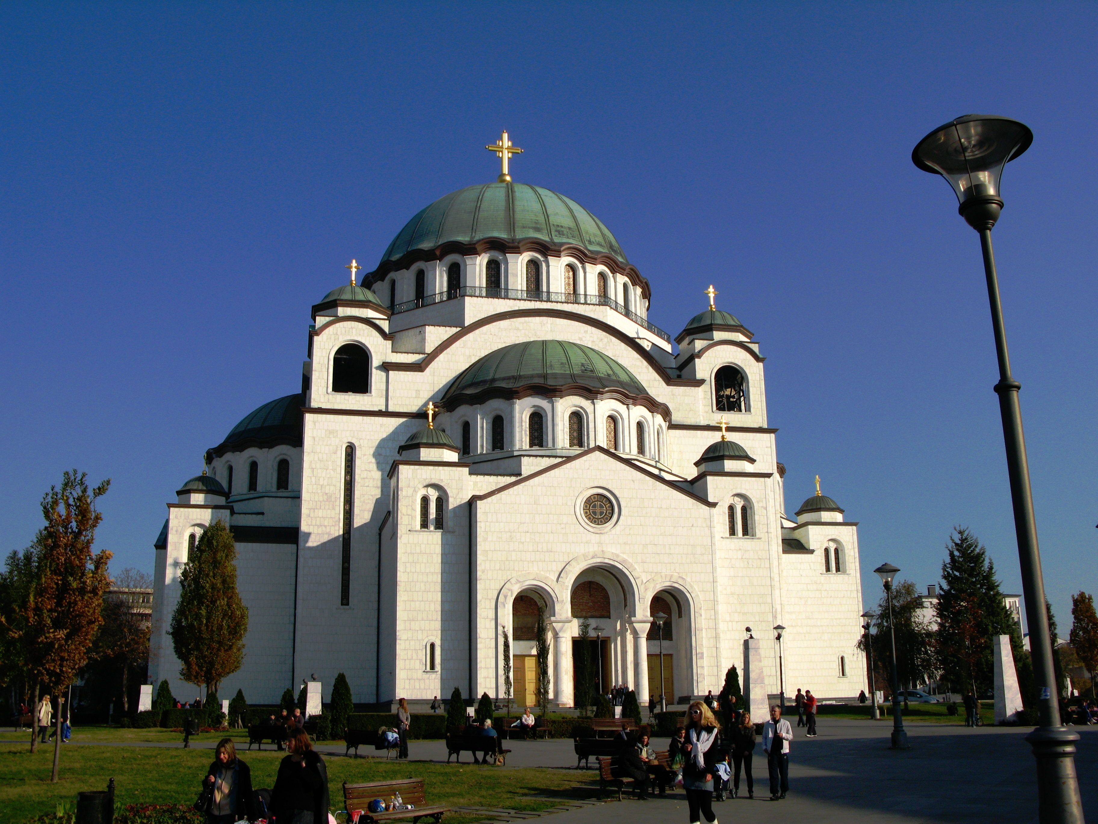 Cathedral of Saint Sava, Belgrade, Serbia.